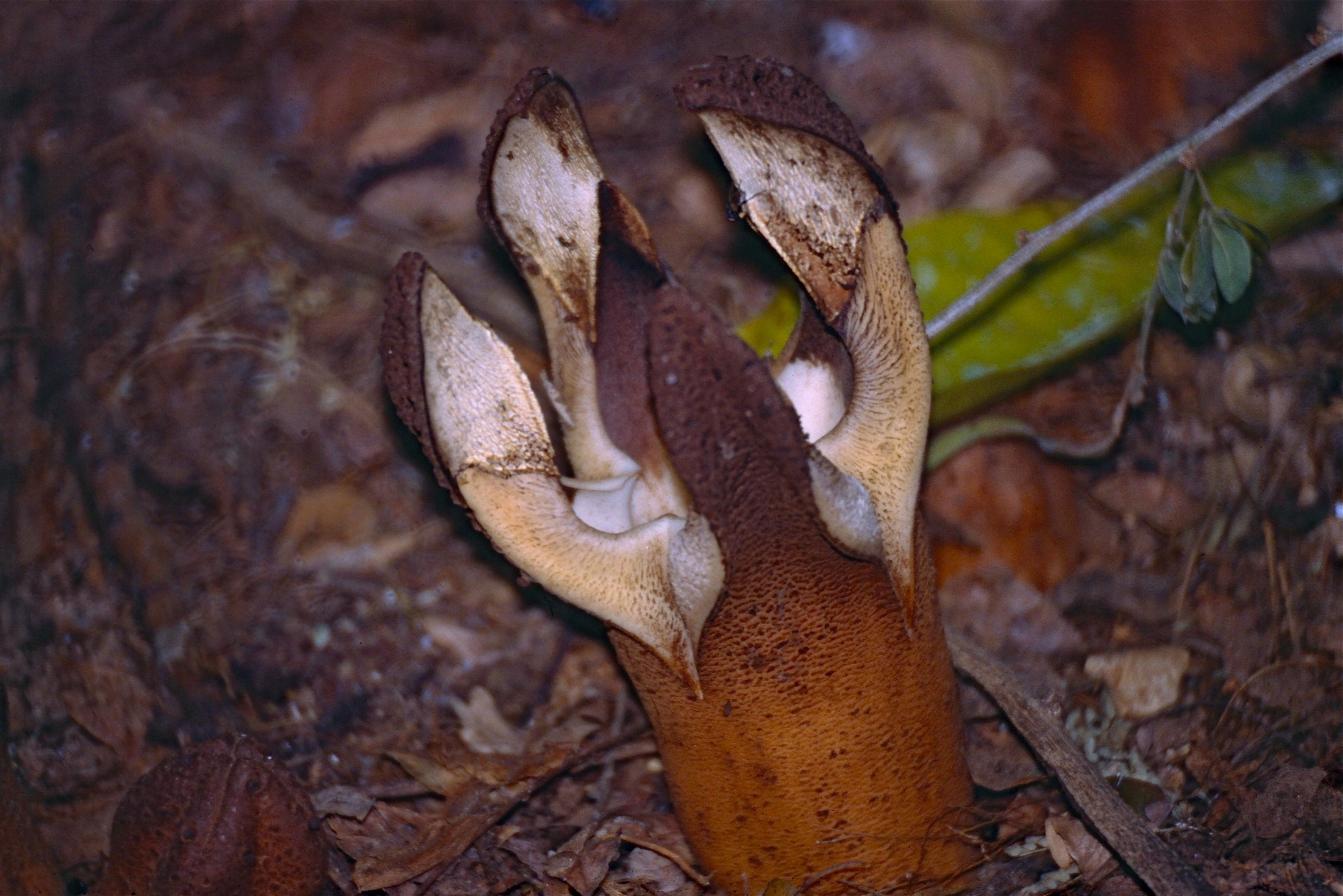 Réserve de Berenty, Amboasary Sud, MADAGASCAR Scanned Slide from 1998